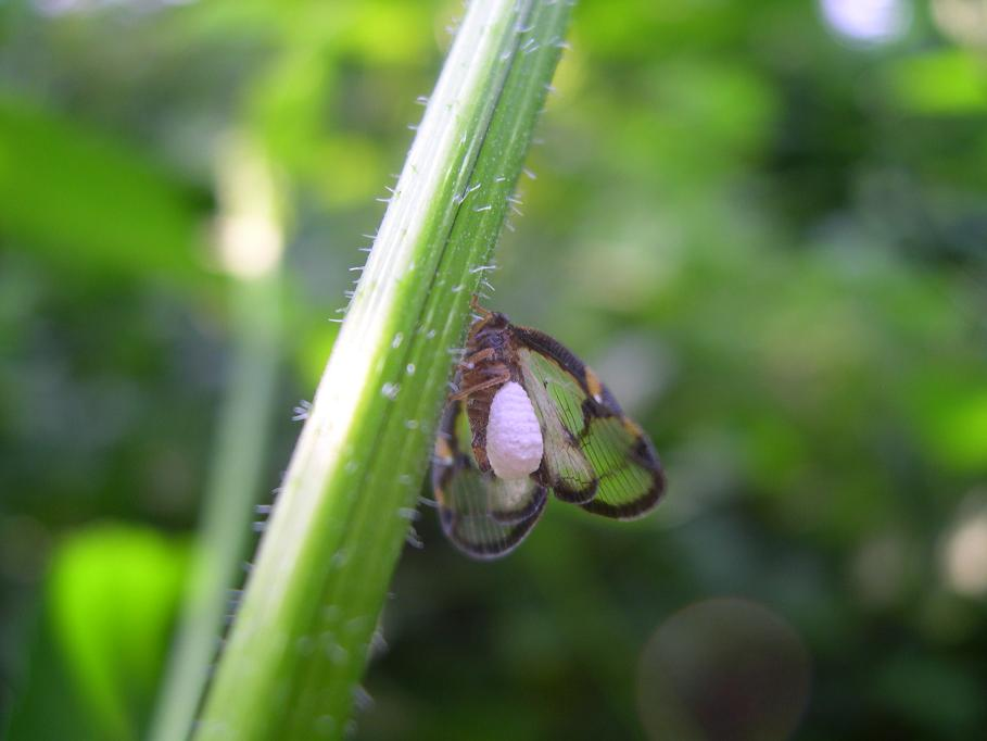 Planthopper Parasite Moth Epiricania hagoromo Kato, 1939 (Lepidoptera:Epipyropidae) A caterpillar attached to the abdomen of a planthopper Euricania fascialis (Ricaniidae). Yokohama, kanagawa, japan.